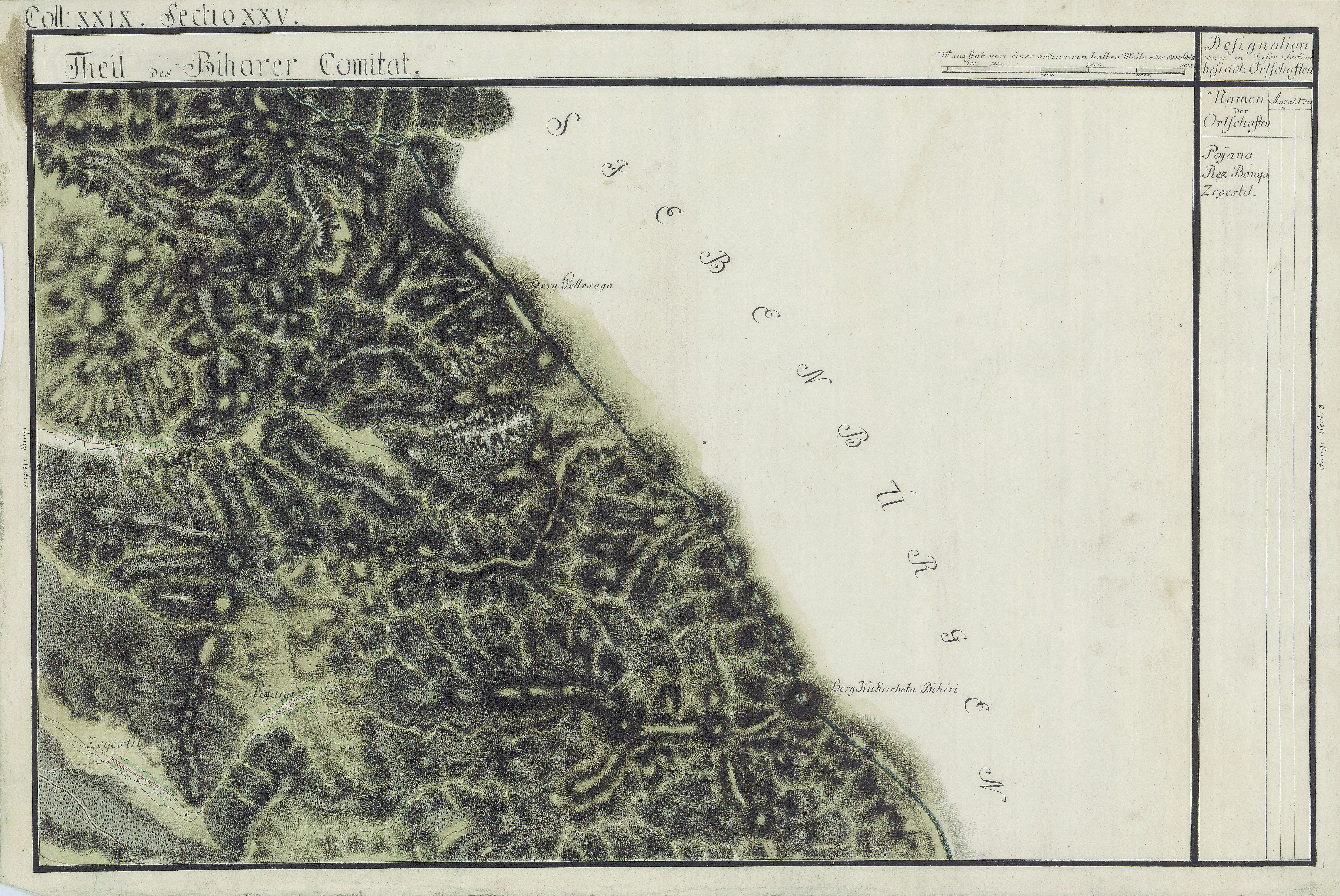 Bihor County, 1782-85. Josephinische Landesaufnahme pg.29-25